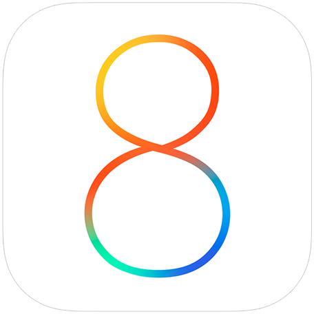 The Logo of iOS 8 operating system by Apple Inc.